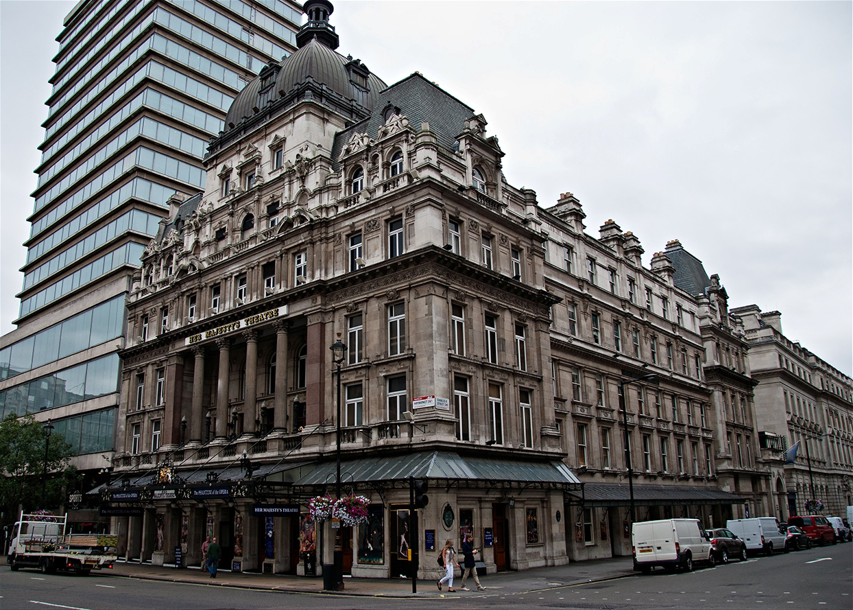 corner of Haymarket and Charles II Street, London